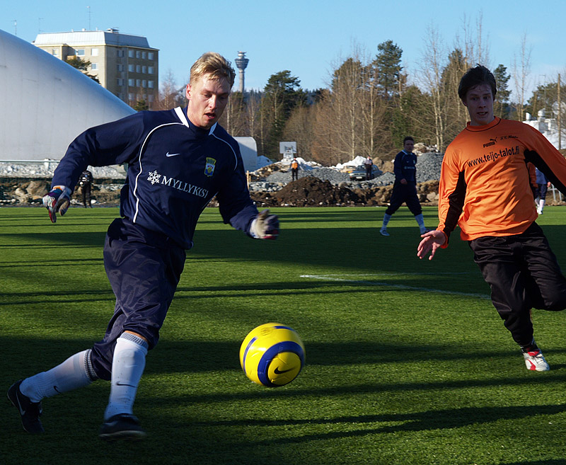 Duel in a soccer match. MyPa of Myllykoski vs. FC Honka of Espoo at Nike-Cup (April 23.–24, 2005) in Kuopio, Finland.